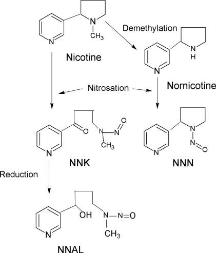 Tobacco-specific N-nitrosamines is formed by N-nitrosation of alkaloids in tobacco. NNN (N′-nitrosonornicotine) and NNK (4-(metylnitrosamino)-1-(3-pyridyl)-1-butanon) are among the most important and most potent carcinogens in tobacco and tobacco smoke. NNAL (4-(methylnitrosamino)-1-(3-pyridyl)-1-butanol) is a metabolite of NNK and determination of total NNAL (NNAL and its glucuronides) in urine is often used to assess the possible role of TSNA in tumor development. A significant relationship between total NNAL has been found in serum samples from smokers and lung cancer risk. NNN and NNK are classified by International Agency for Cancer Research (IARC) as human carcinogens.